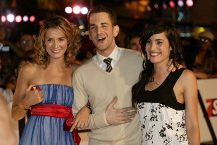 eTalk Star! Schmooze, Toronto International Film Festival party. From left to right: Natalie Lisinska, Aaron Abrams, Carly Pope